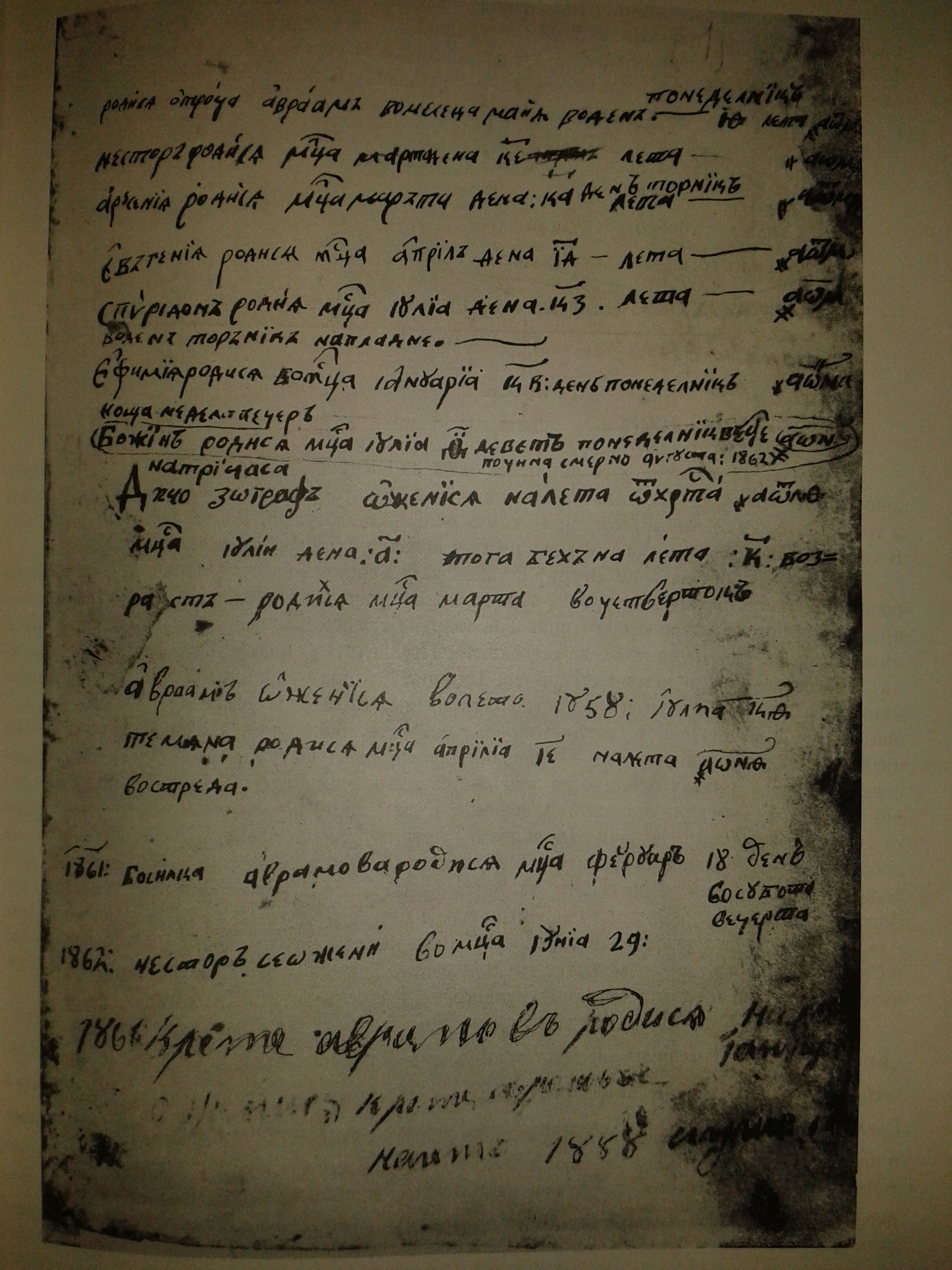 Dimitar Krastev